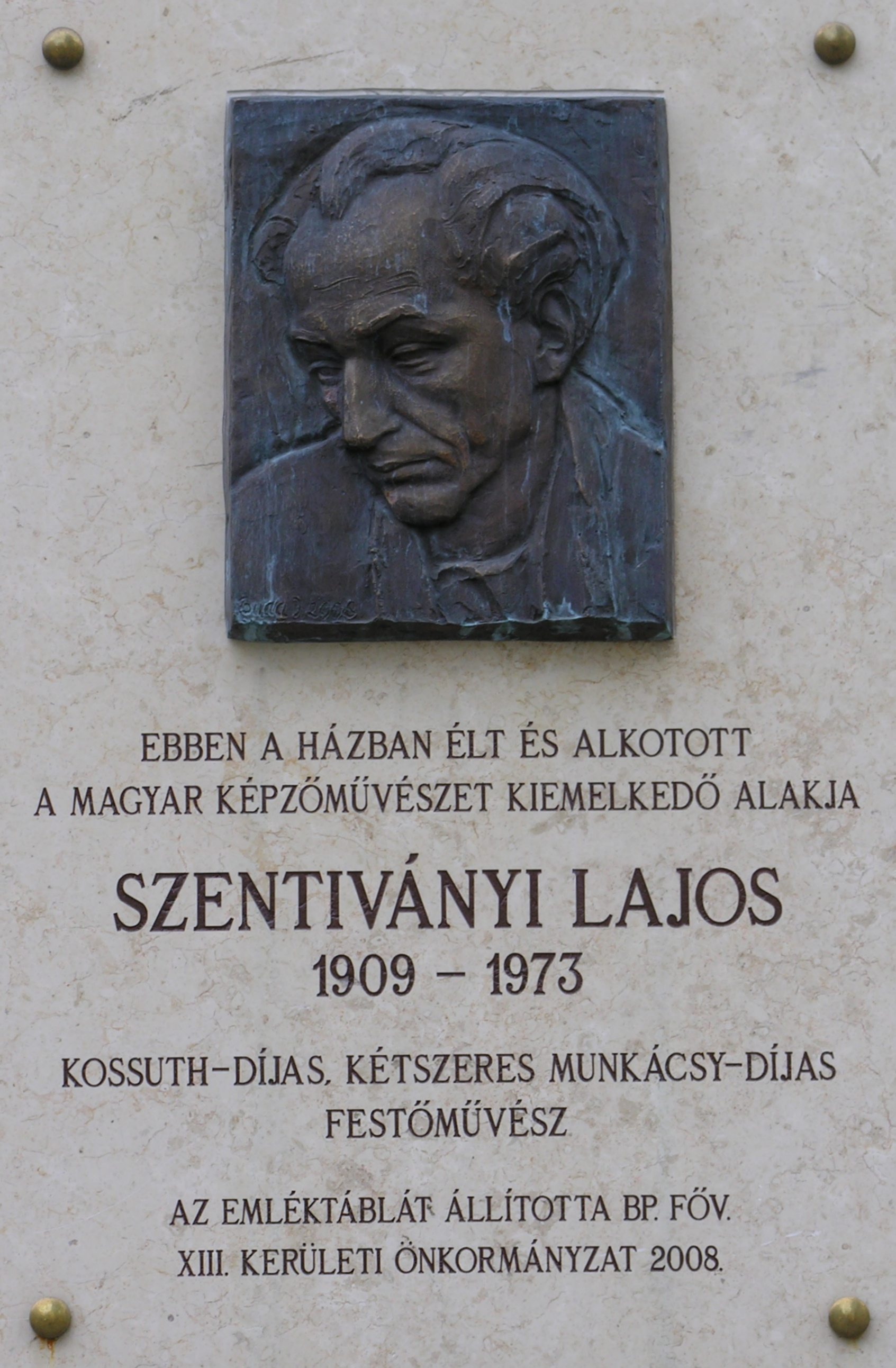 Commemorative plaque of Lajos Szentiványi, created by the sculptor István Buda. Budapest District XIII, Máglya Alley No 2. It is fixed in 2008.